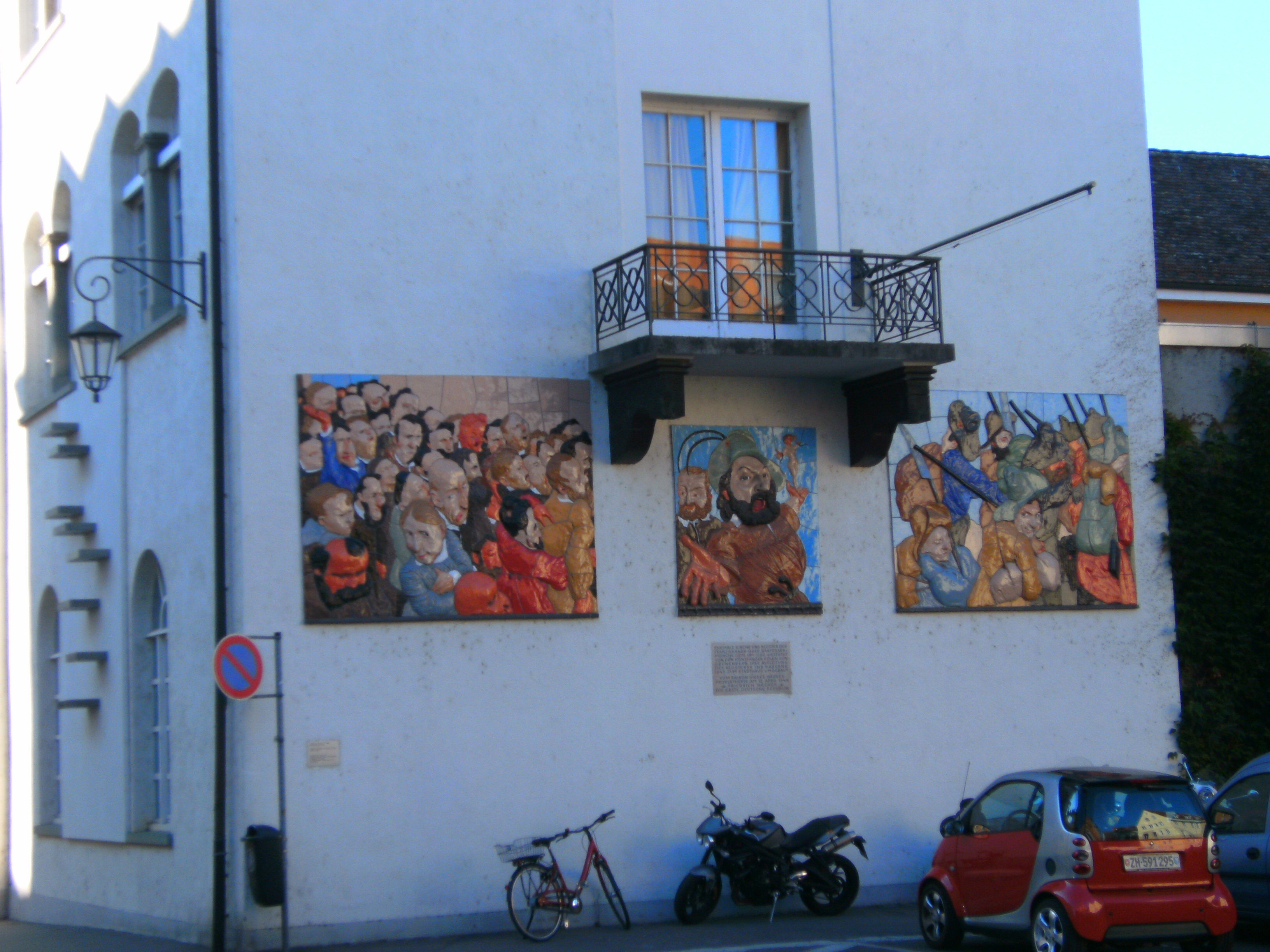 Konstanz, Germany: Painting by Johannes Grützke: Morgen brechen wir auf (Tomorrow we will start). Visit of Hecker in Konstanz.